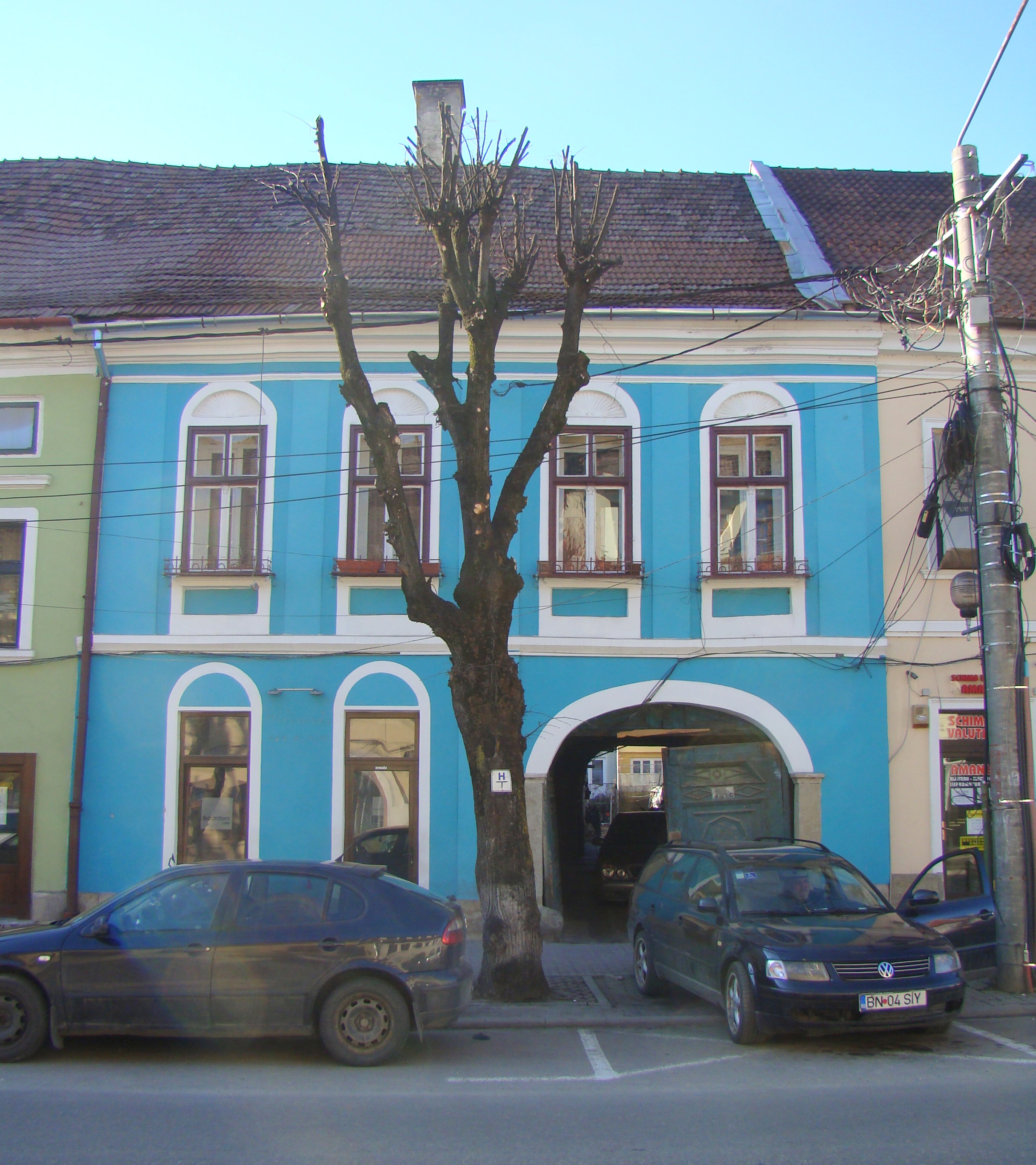 House, historic monument, in Bistriţa, Dornei street, number 23